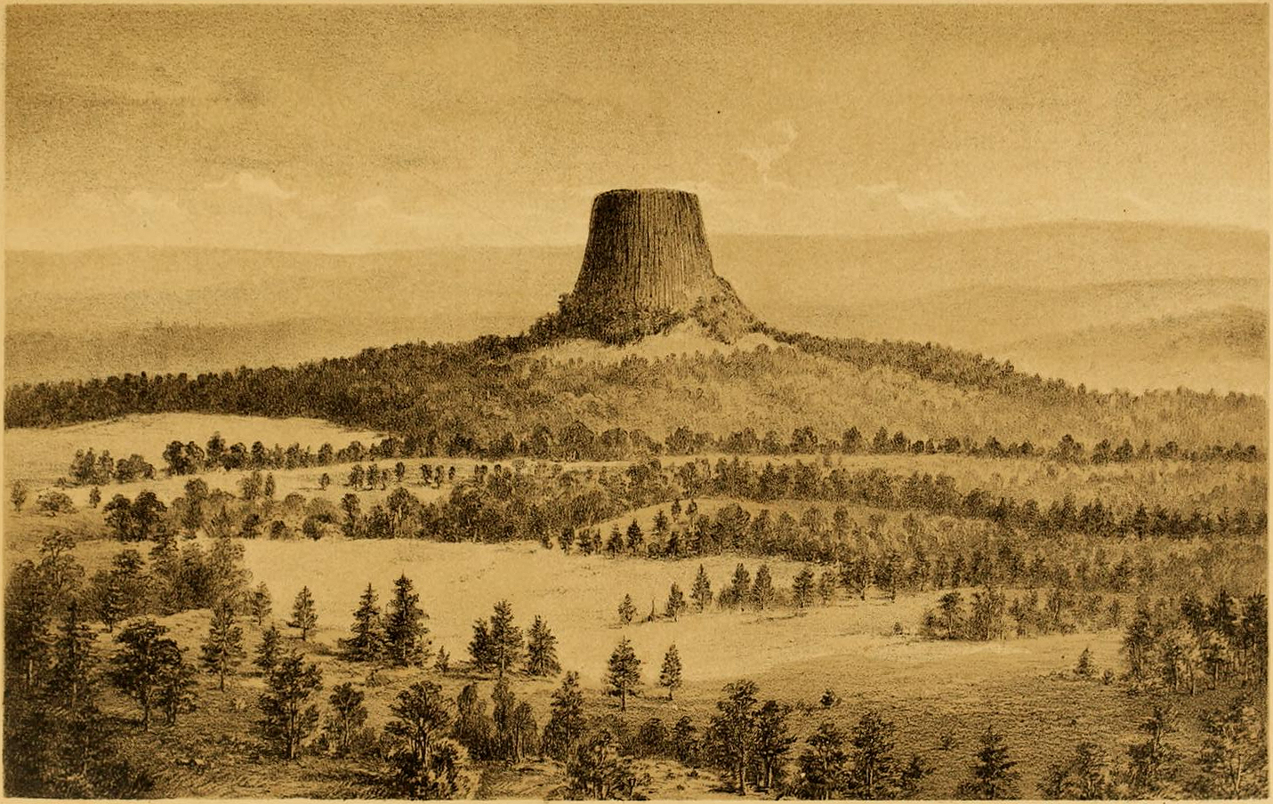 Original figure caption: “Bear Lodge, looking eastward”